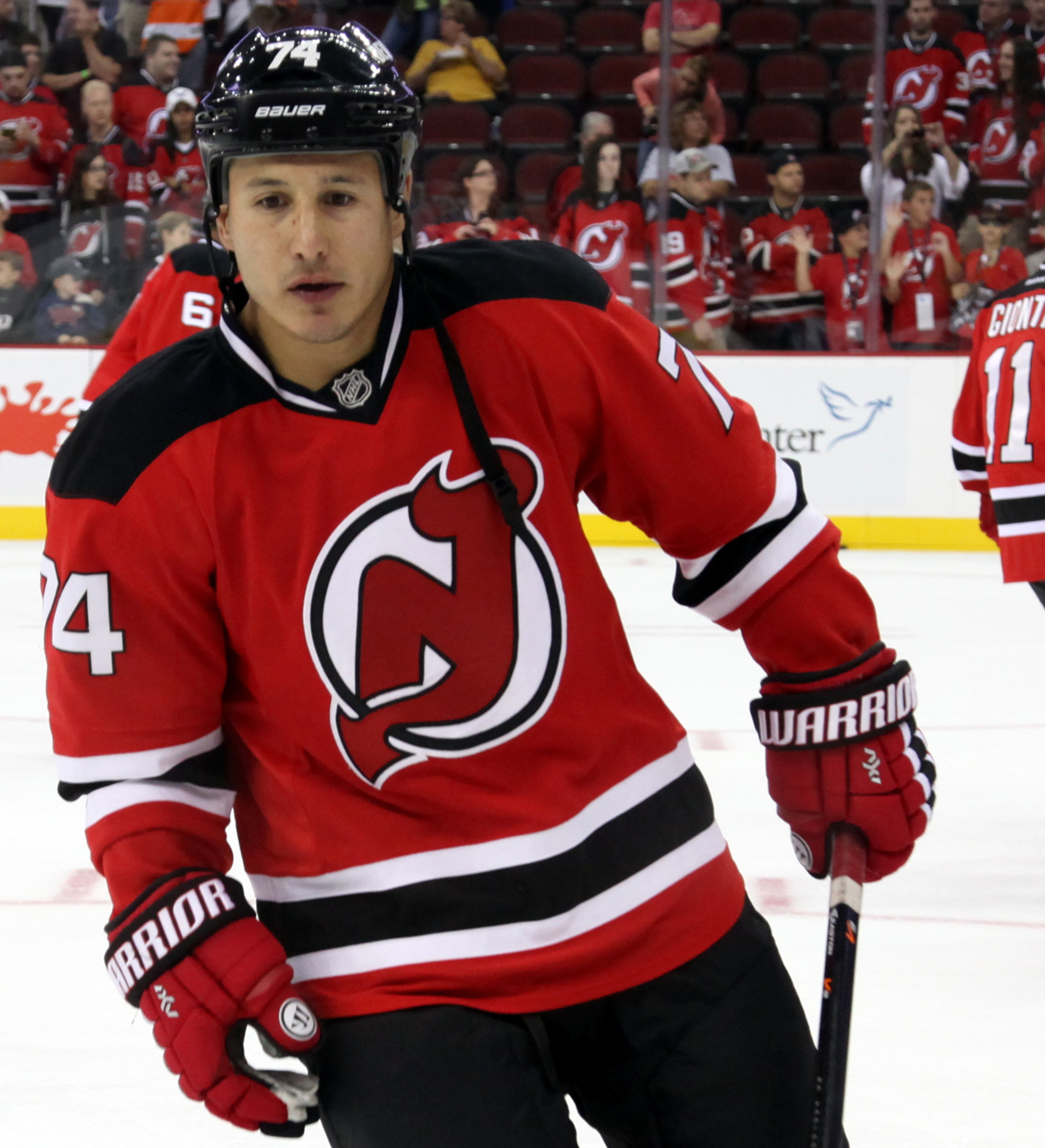 Jordin Tootoo of the New Jersey Devils in September 2014.